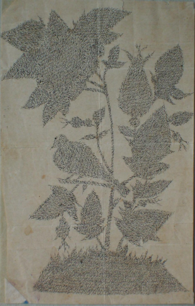 Bedii elyazma numunesi. Mirzə qədim irəvani